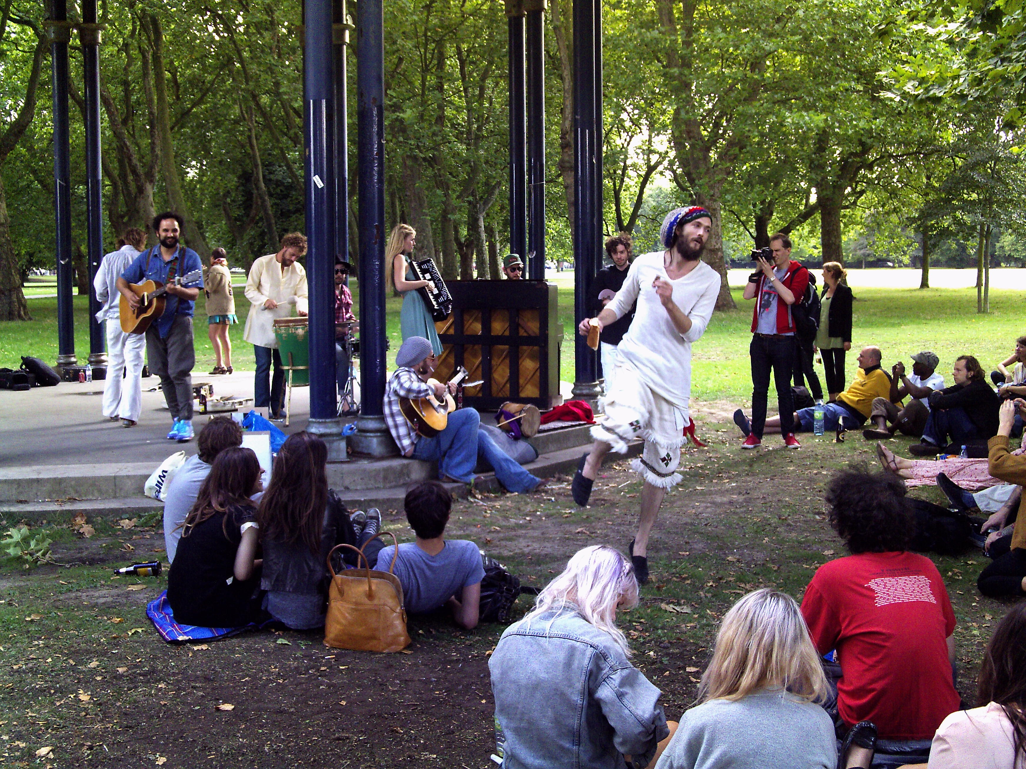 Edward Sharpe and the Magnetic Zeros playing at the bandstand in Victoria Park, East London, UK, on friday afternoon 21 August 2009.